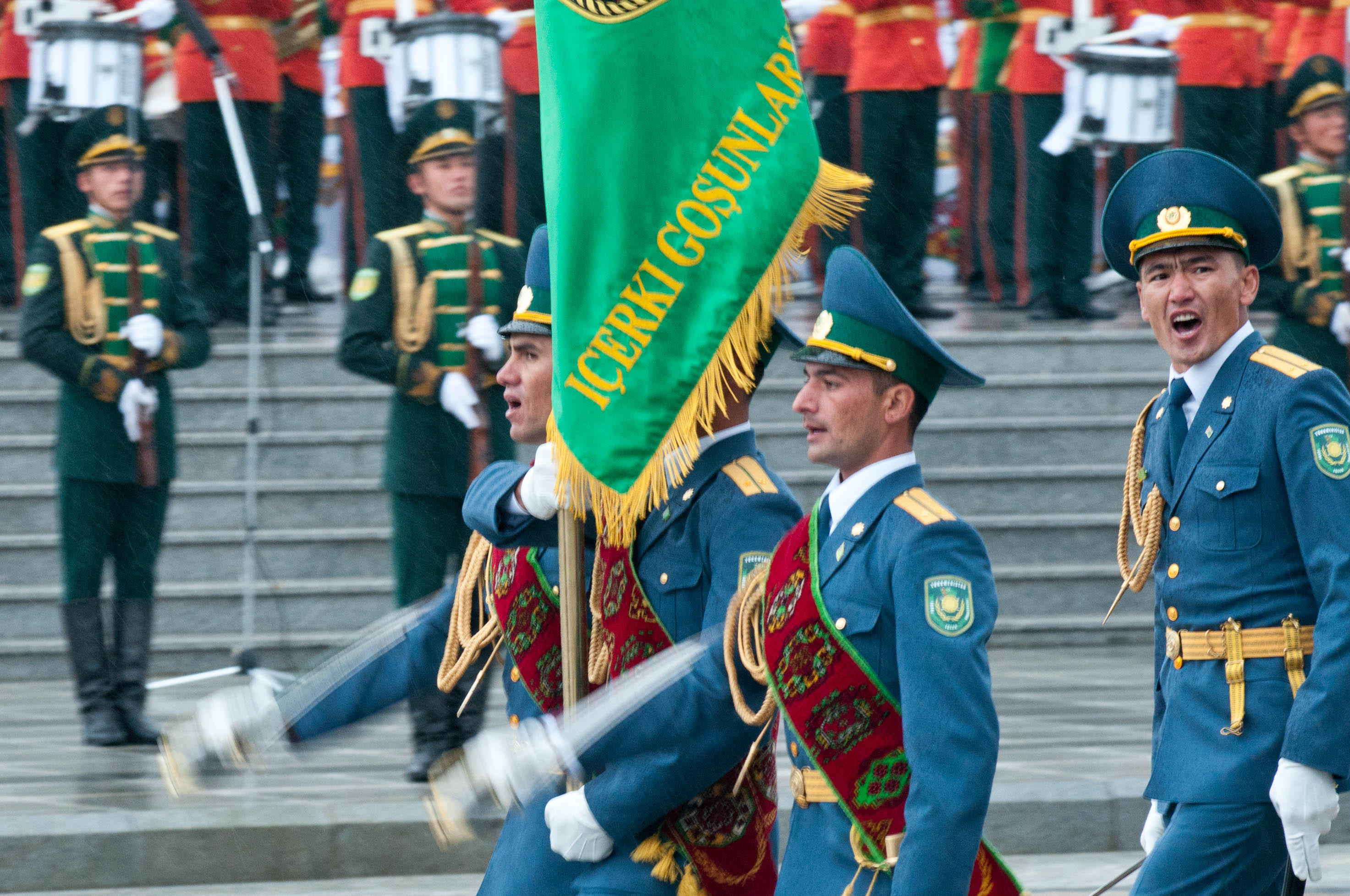 Celebrating the 20th year of independence in Turkmenistan